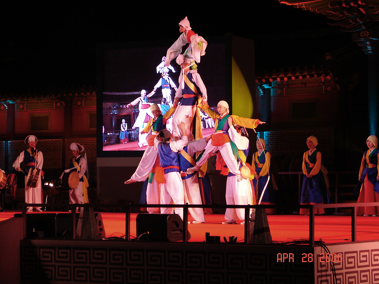 Namsadang nori, a Korean traditional performance at Hi! Seoul Festival